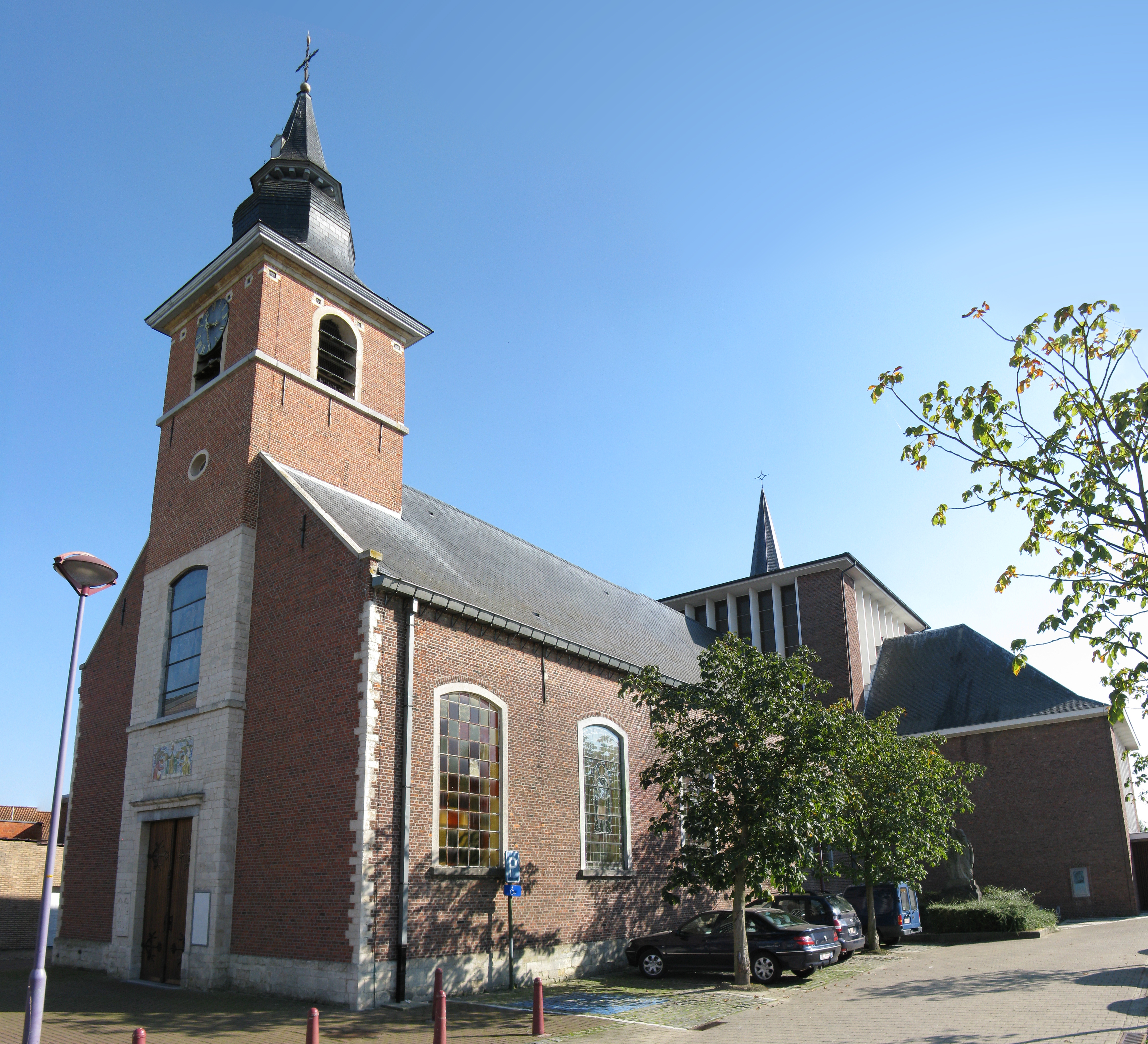 Parish church Saint-John and Amand, Oppuurs, Sint-Amands, Antwerp, Belgium